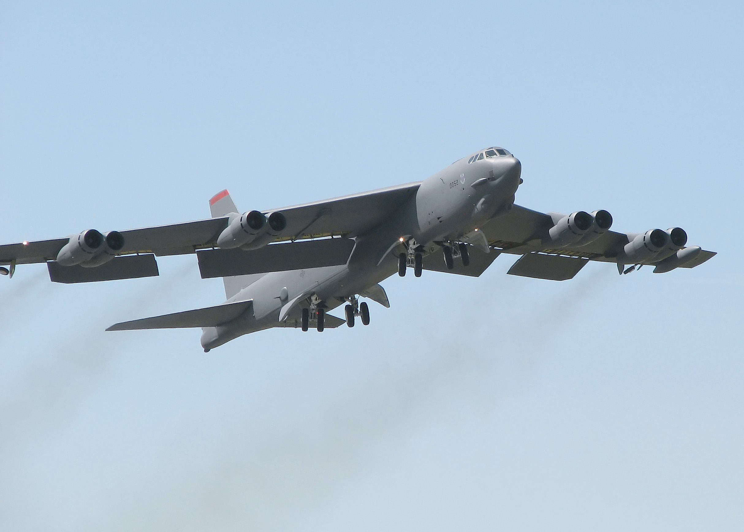 Boeing B52H (code 0052) taking off from the Royal International Air Tattoo, RAF Fairford, Gloucestershire, England. The wheels are beginning to retract, including the wingtip support wheels. Photographed by Adrian Pingstone on July 17th 2006 and released to the public domain.